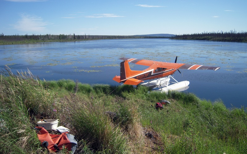 "Second collecting site, Kanuti NWR, AK." This is a Cessna 185 registered to the US Dept of Interior.